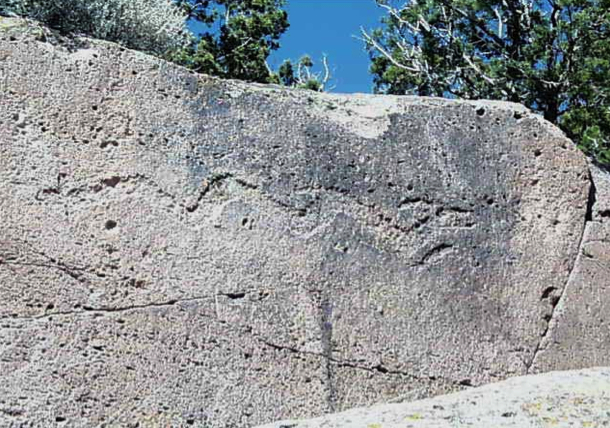 Rock art at Tsirege depicting Awanyu, a horned water serpent deity. This photo was published in LA-UR-04-8964-CRMP and appeared in Figure 15.13, page 86.